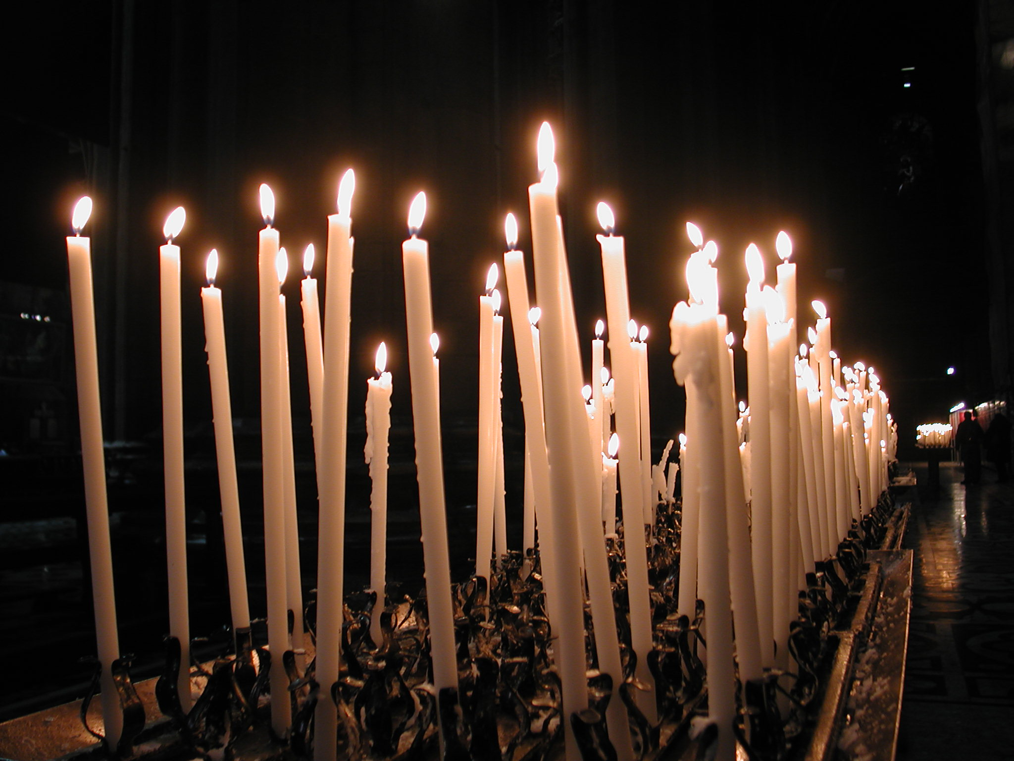 Candles in the Duomo di Milano, Milan's cathedral. December 2005